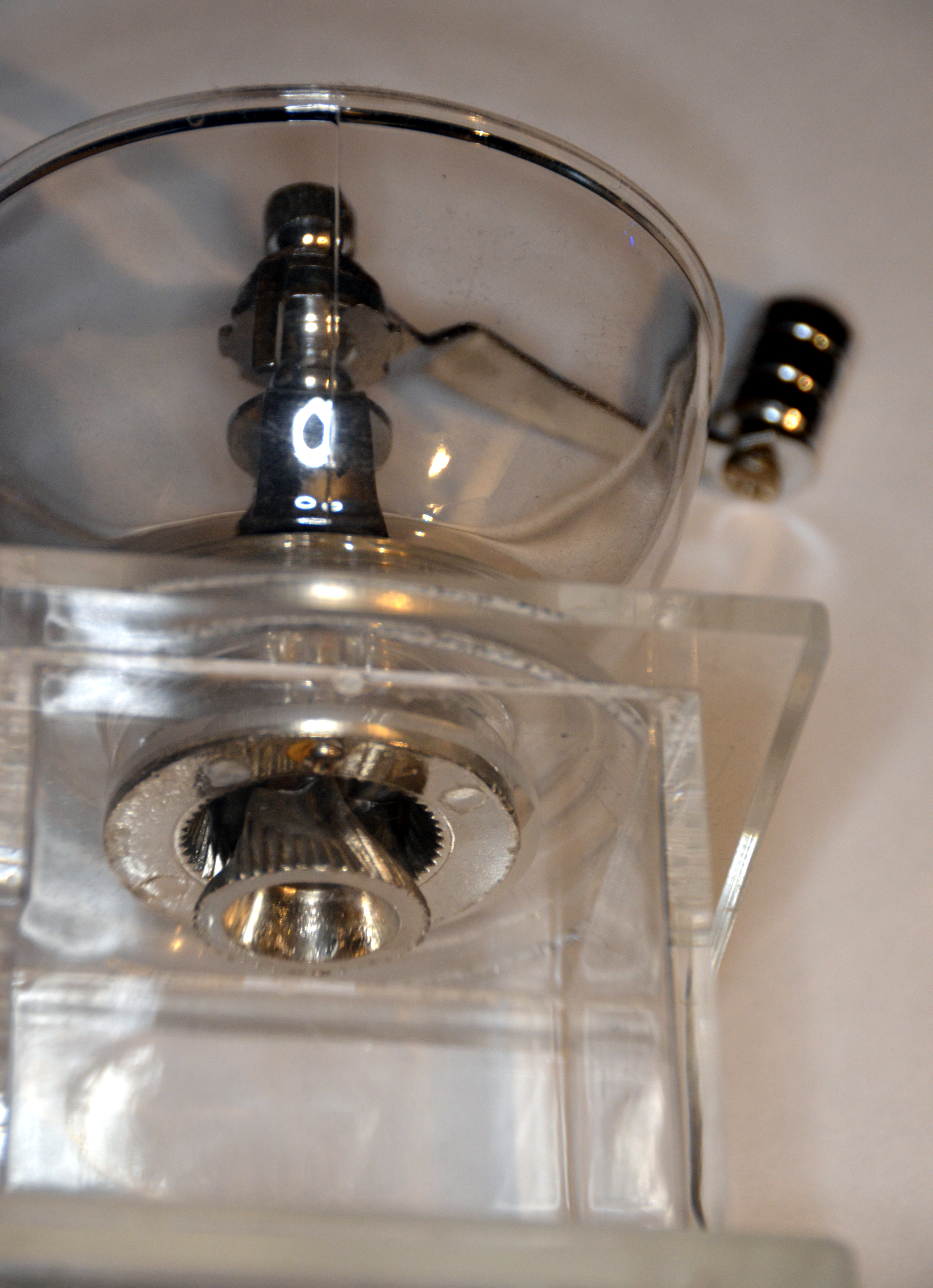 Coffee grinder with cone-shaped burr mill mechanism